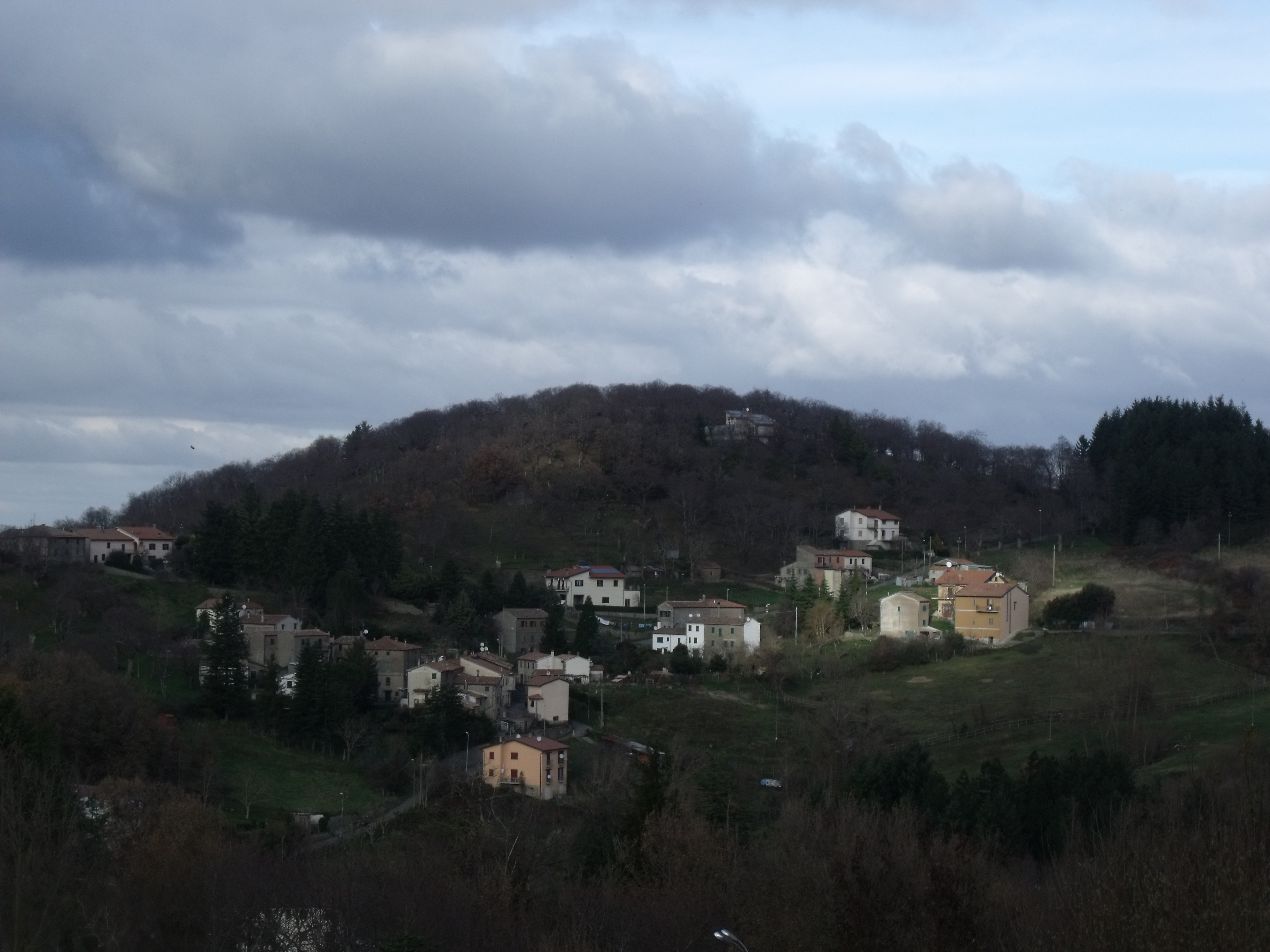 Panorama of Zancona, Hamlet of Arcidosso, Province of Grosseto, Tuscany, Italy